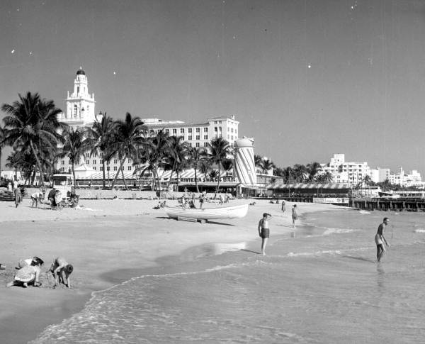 Section of beach by the Roney Plaza Hotel - Miami Beach, Florida